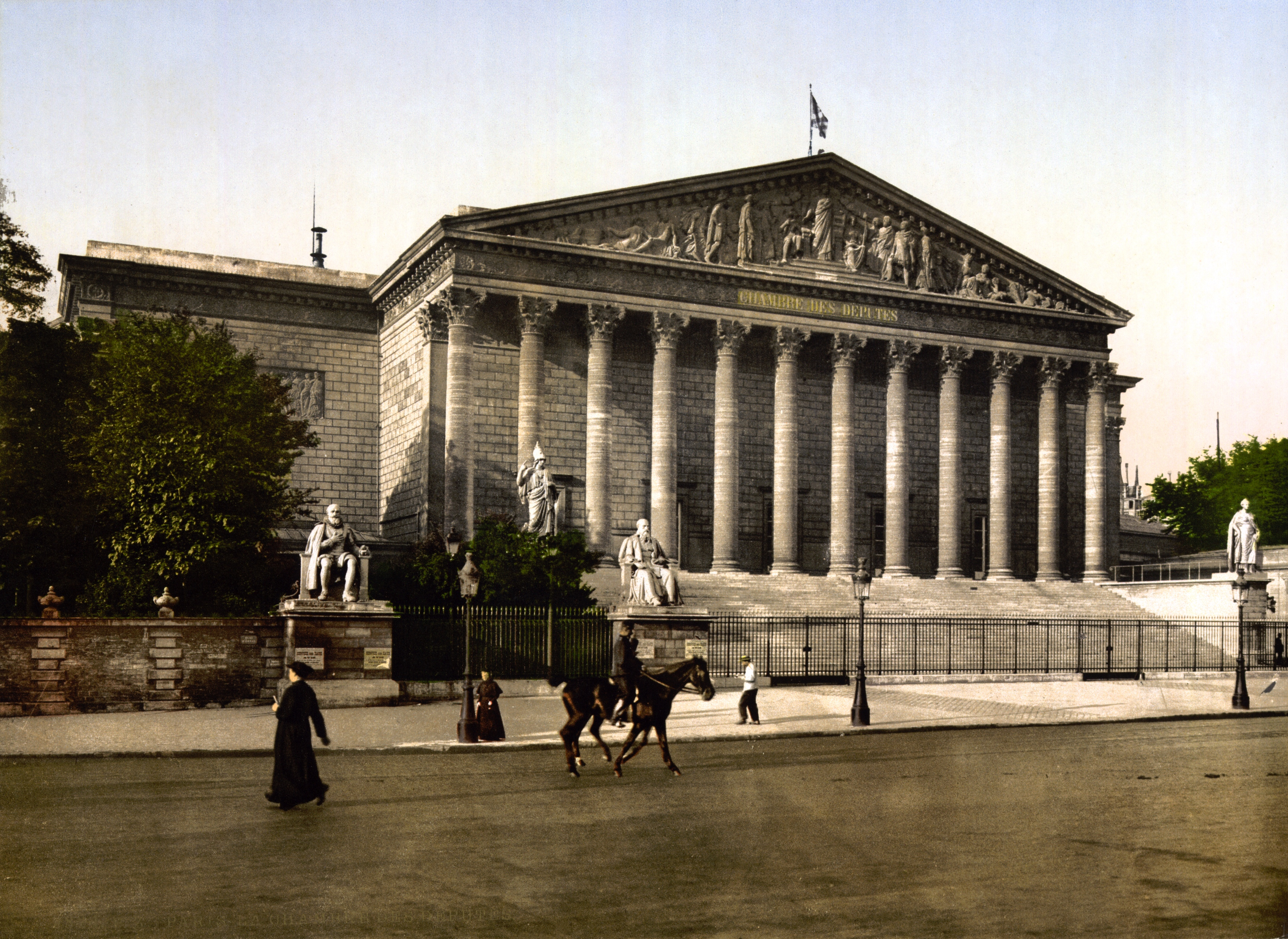 North facade of the Palais Bourbon in Paris, France